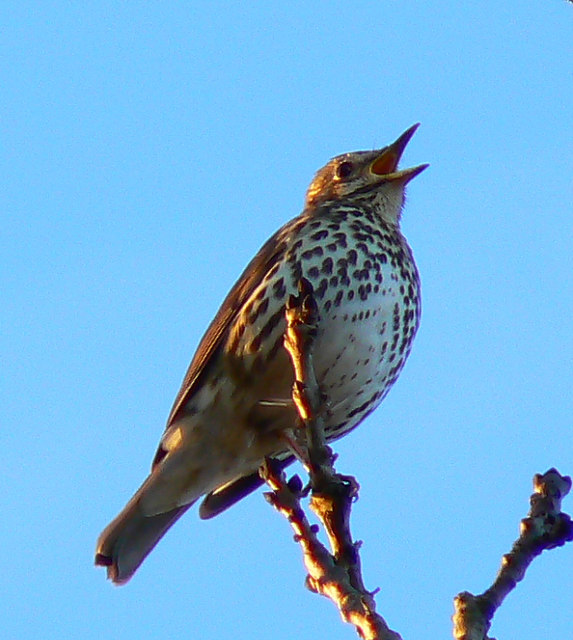 Song thrush near Faringdon Folly This is a song thrush, Turdus philomelos. More here from the RSPB This bird was singing a charming song in the early morning sunshine. Thanks to Mike Pennington for the identification.